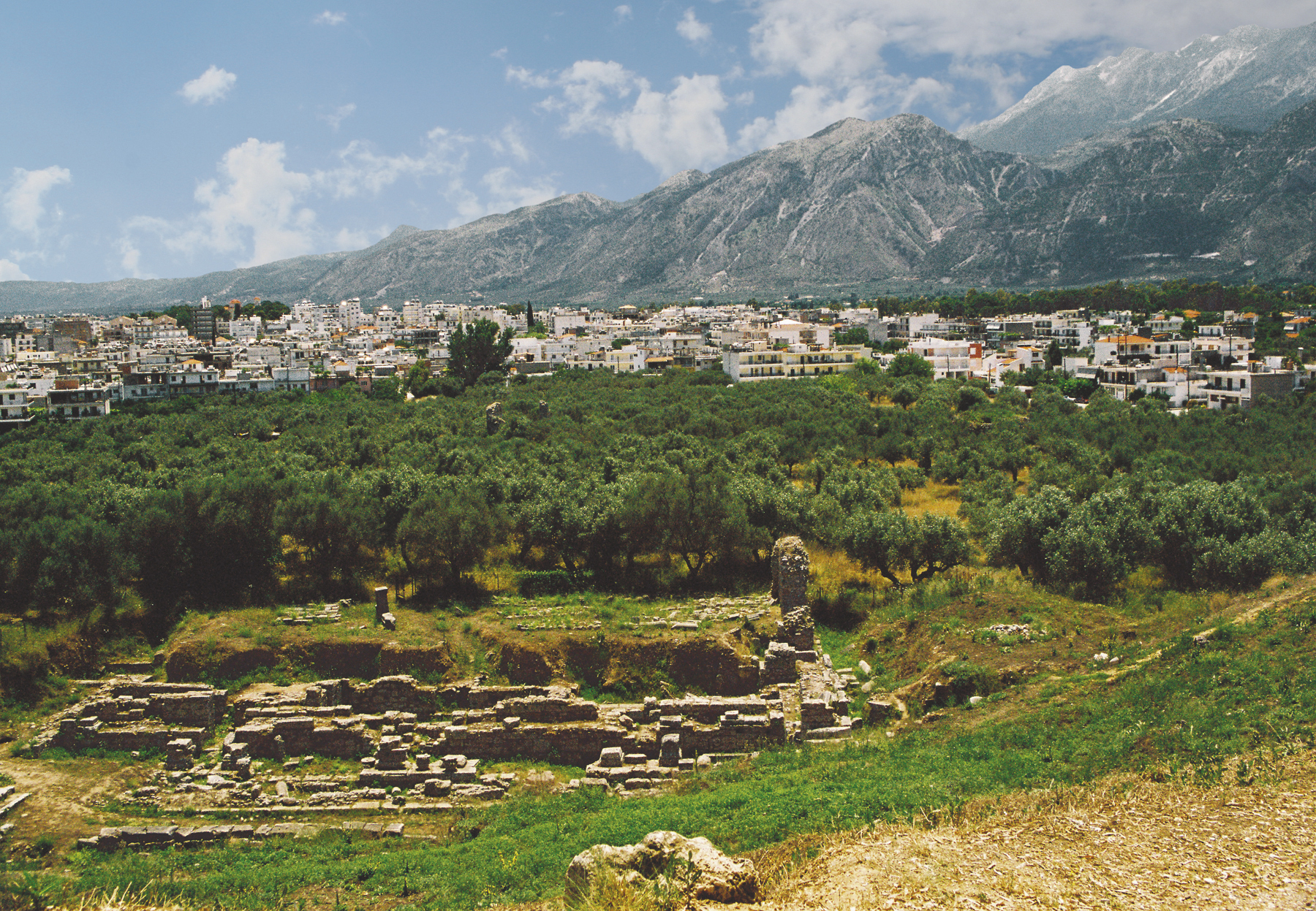 Sparti today, clasical Sparta, Peloponnese, situated in fertile valley of River Evrotas, flanked by Taygetos-Mountains (background) and Parnon-Mountains.